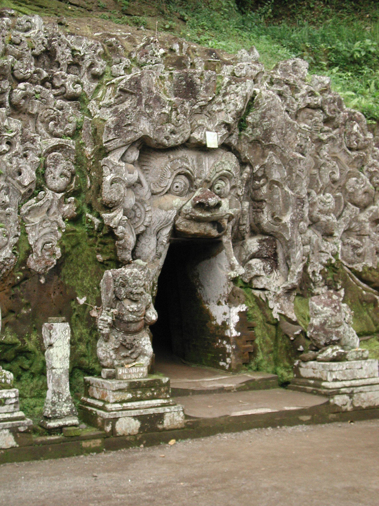 This is the entrance to the "Elephant Cave" at the Goa Gajah Temple Near Ubud, Bali, Indonesia -- note that it's not supposed to be an elephant.